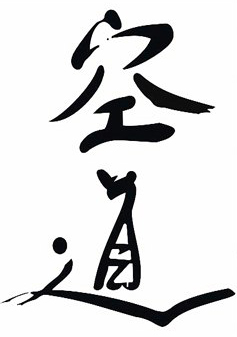 Kūdō 空道 written in Japanese Kanji